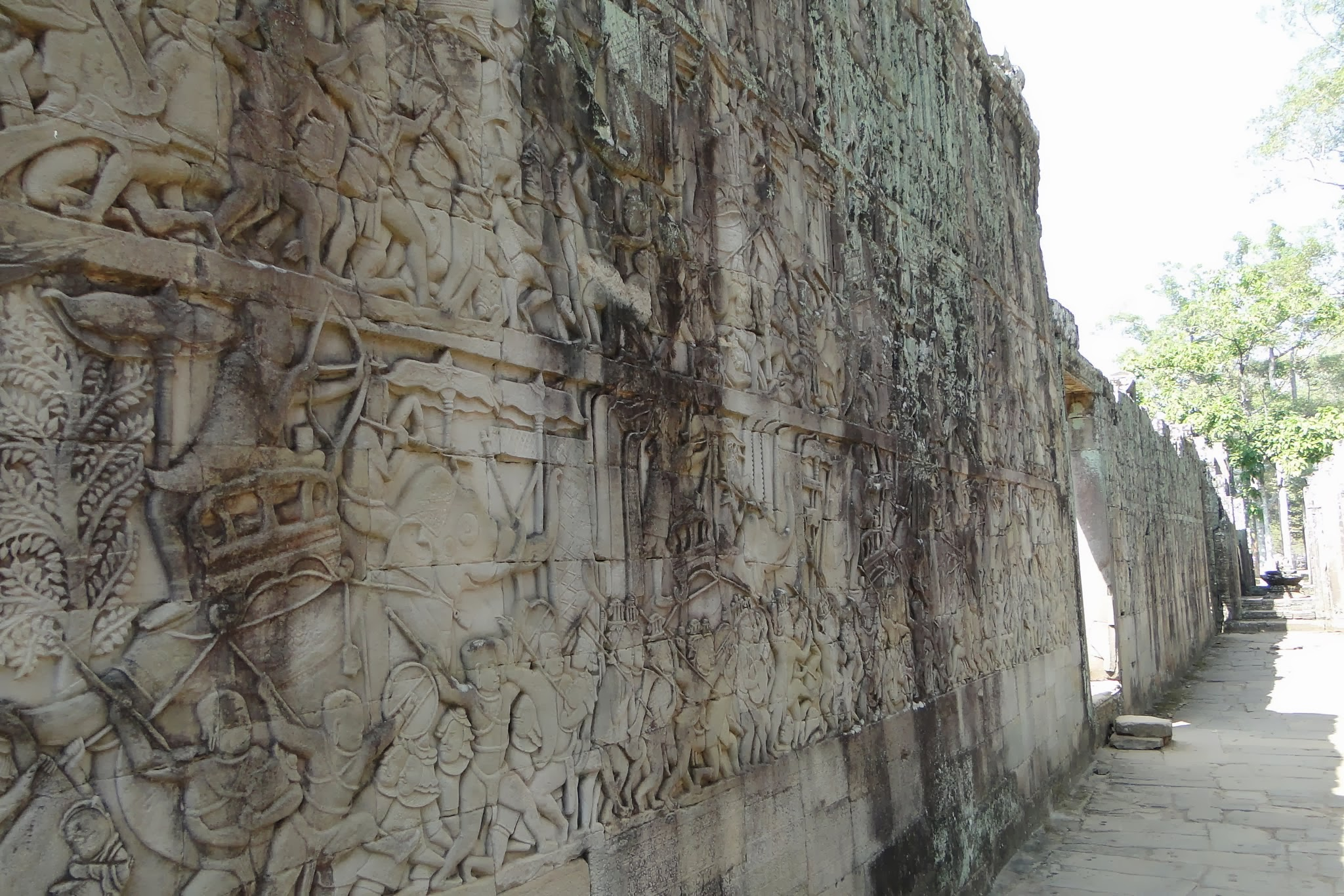 Bayon